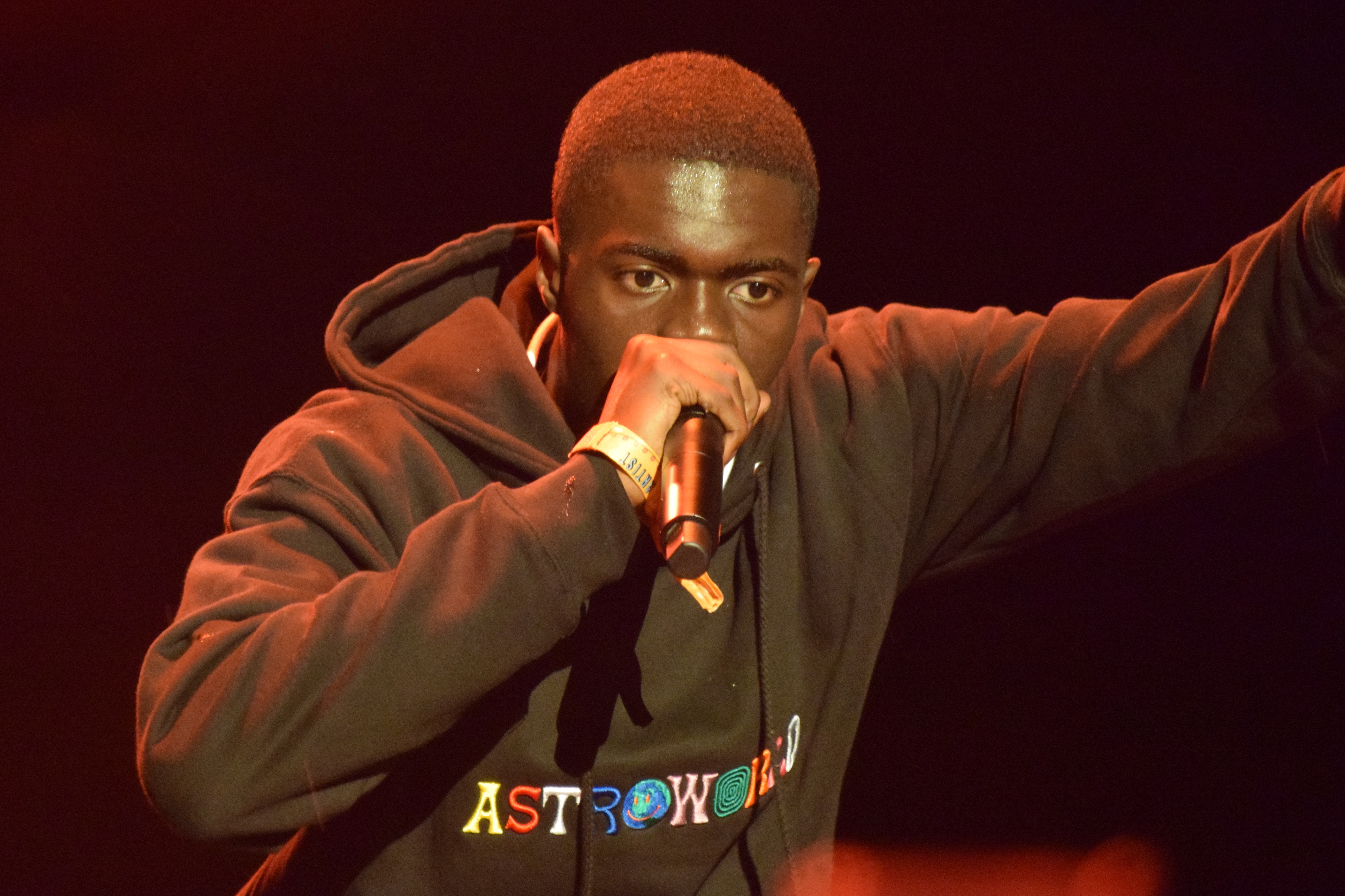 Sheck Wes performing at Gov Ball Music Festival in 2018 with Travis Scott